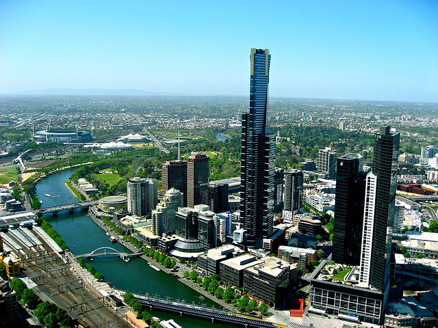 Melbourbe CBD, Australia.